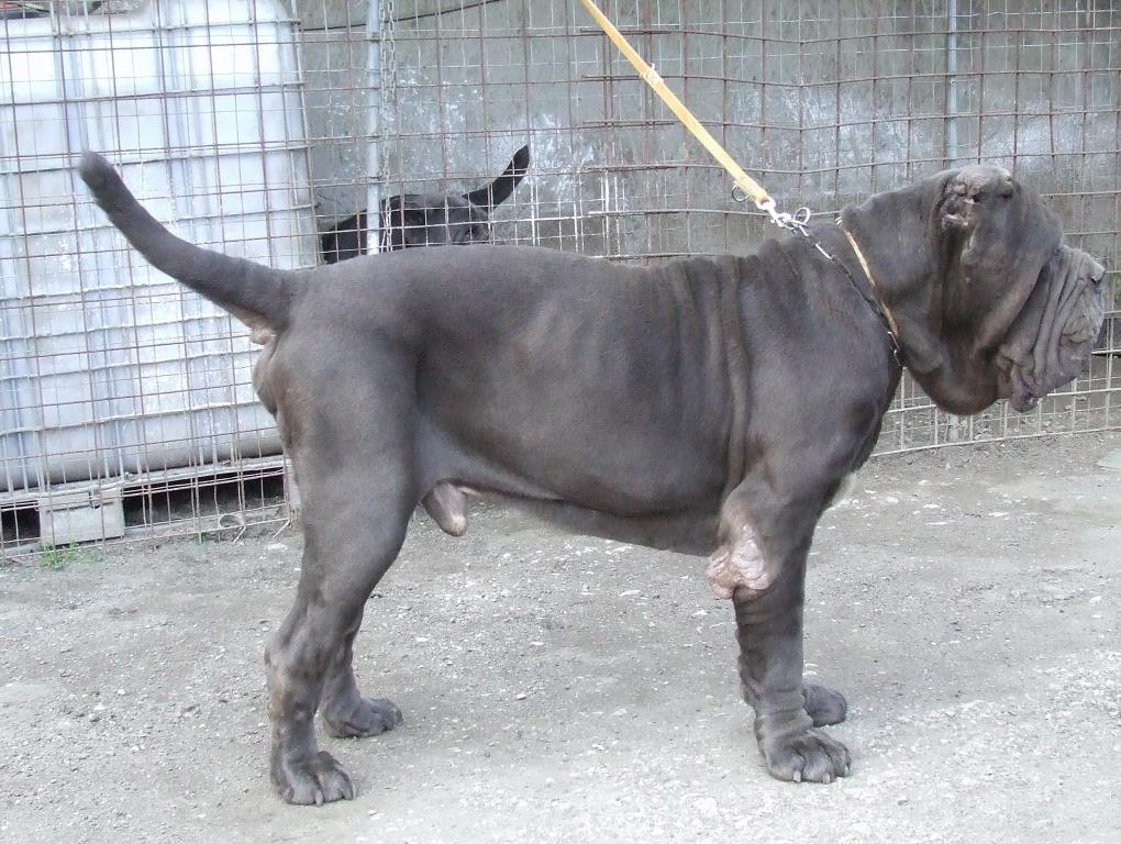 Photo taken by me Philip Thompson of Anacronismo Mastino End of October 2006 on a visit to Napoli The male is 5 years old in this photo.